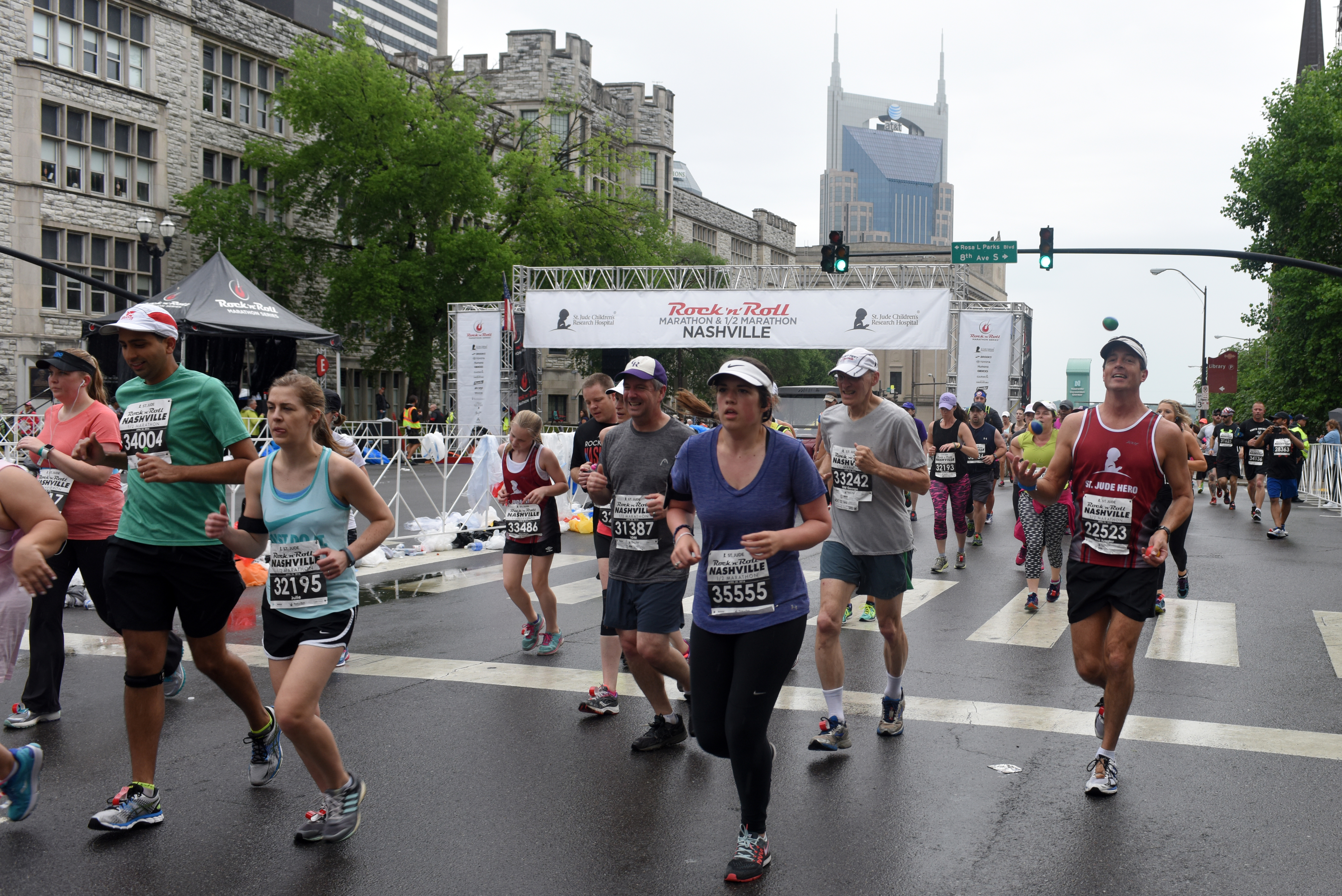 David Quint (wearing St. Jude Hero tank top), Labor and Management Employee Relations specialist with the U.S. Army Corps of Engineers Nashville District, juggles three hacky sack balls on the 13-mile race route during the St. Jude Children’s Research Hospital Rock ‘n Roll Half Marathon in Nashville, Tenn., April 30, 2016. (USACE photo by Leon Roberts) Unit: U.S. Army Corps of Engineers, Nashville District